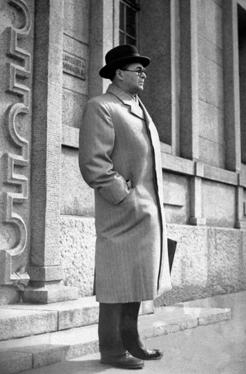 Minister of the interior of Finland Yrjö Leino departed from the parliament and waits for his car 29 April 1948.